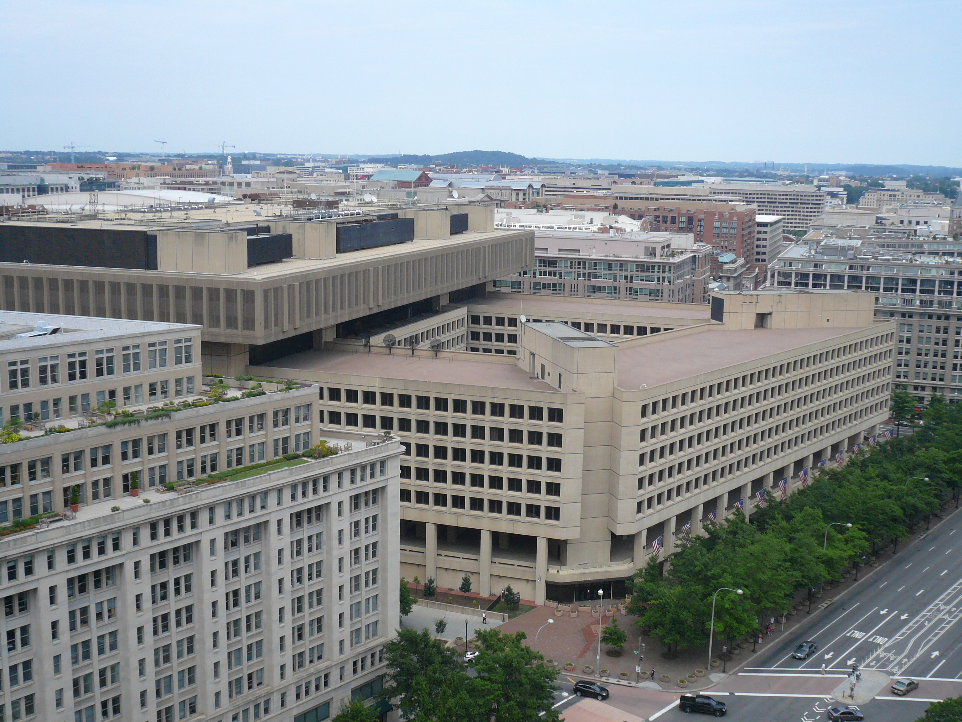 J. Edgar Hoover FBI building. Washington D.C., USA.